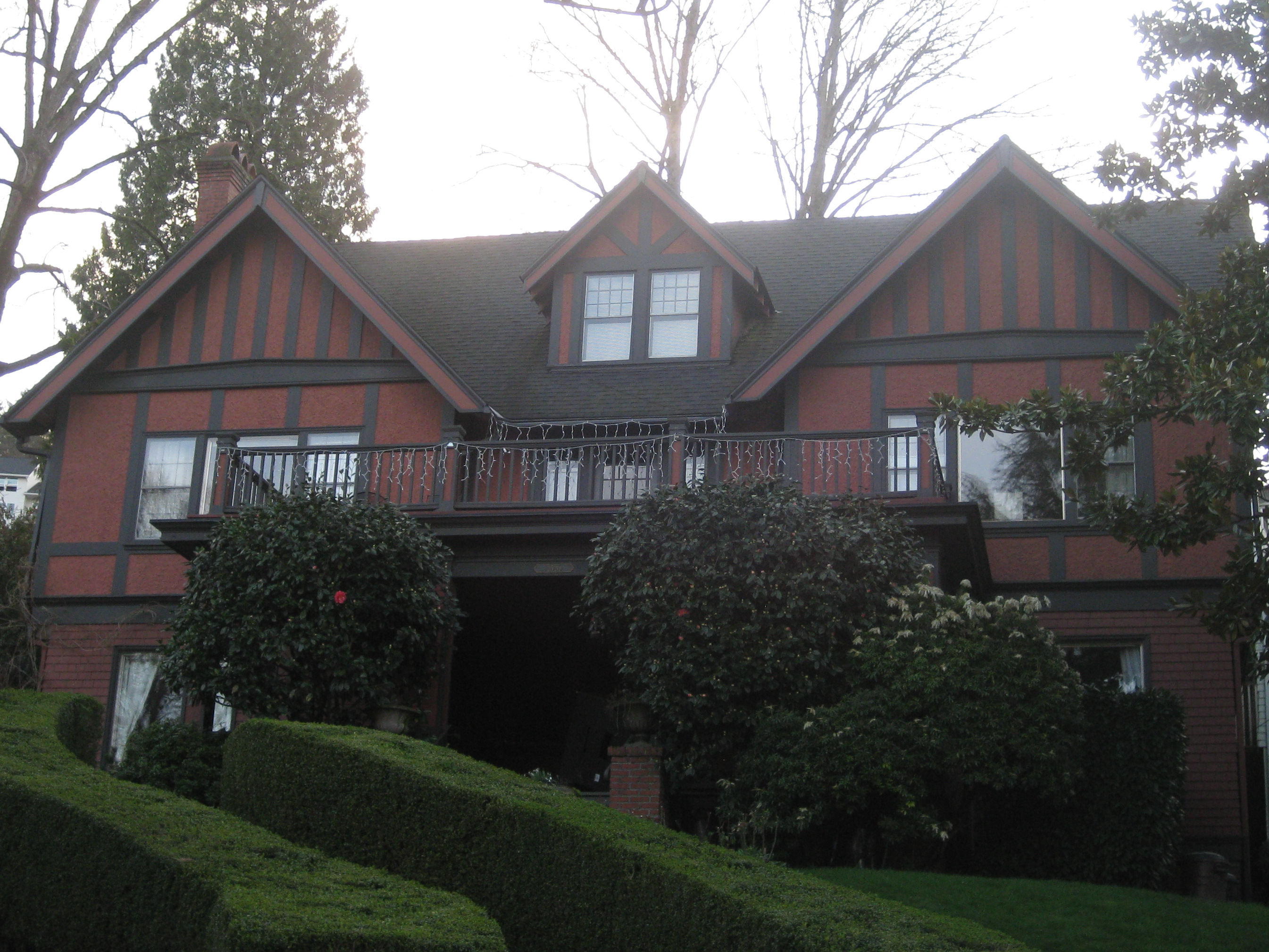 The historic Louis and Bessie Tarpley House (built 1907) located 2520 NW Westover Road in Portland, Oregon, United States, are listed on the US National Register of Historic Places (NRHP).